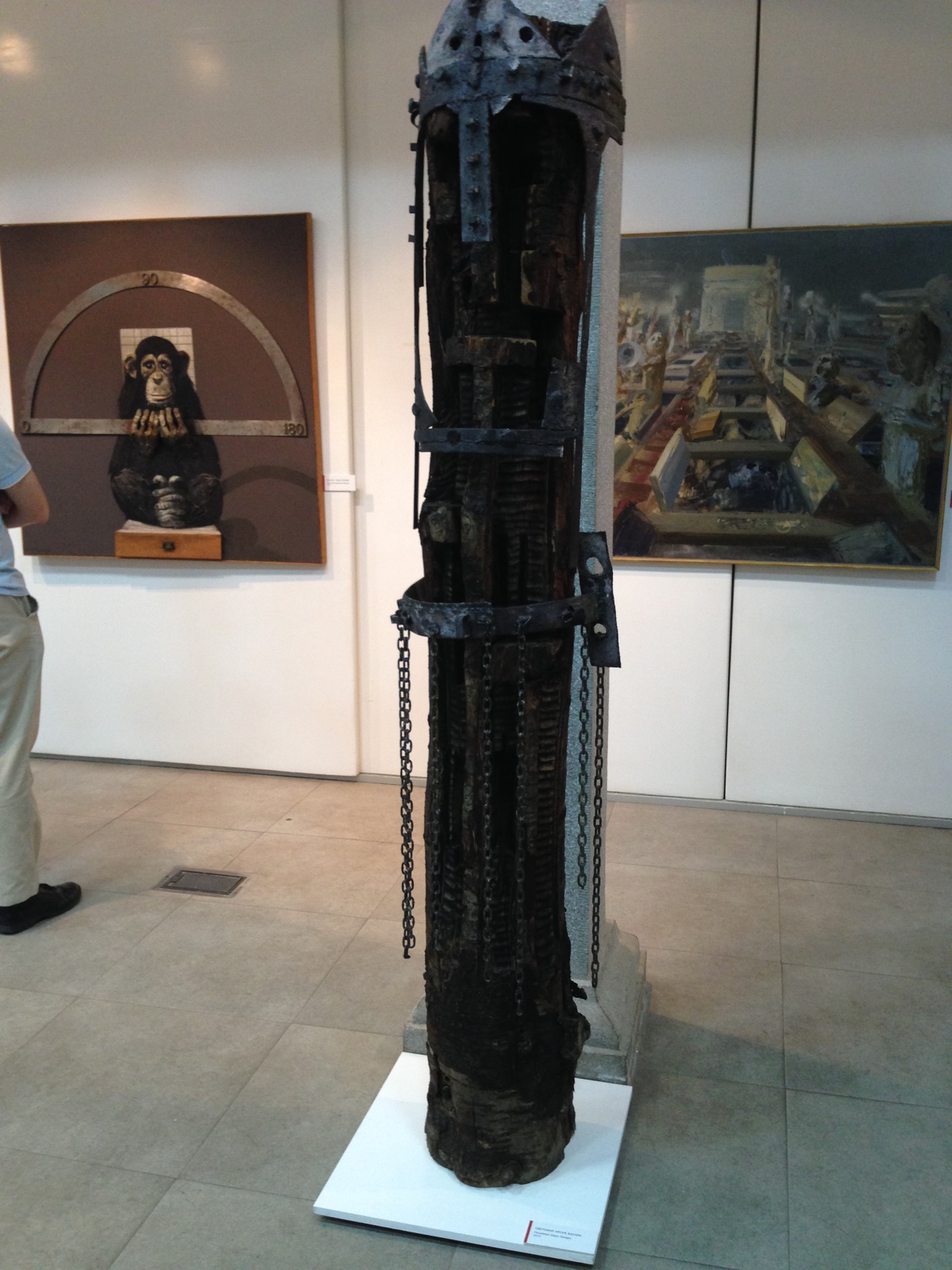 Art collection Gallery of the Serbian Academy of Arts and Sciences, in Sinagoga Niš. 2016. Српски (ћирилица): Уметничка збирка САНУ, на изложби у Галерији Синагога у Нишу. 24.5. 2016.